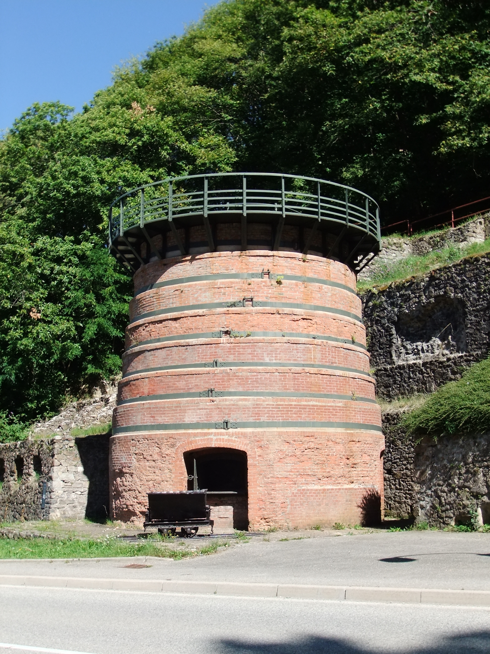 Four à griller : furnace to roast iron-ore (steatite) in Saint-Pierre-d'Allevard, Isère, France.